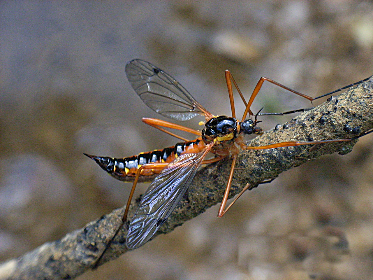 Female of Ctenophora pectinicornis from Southern France